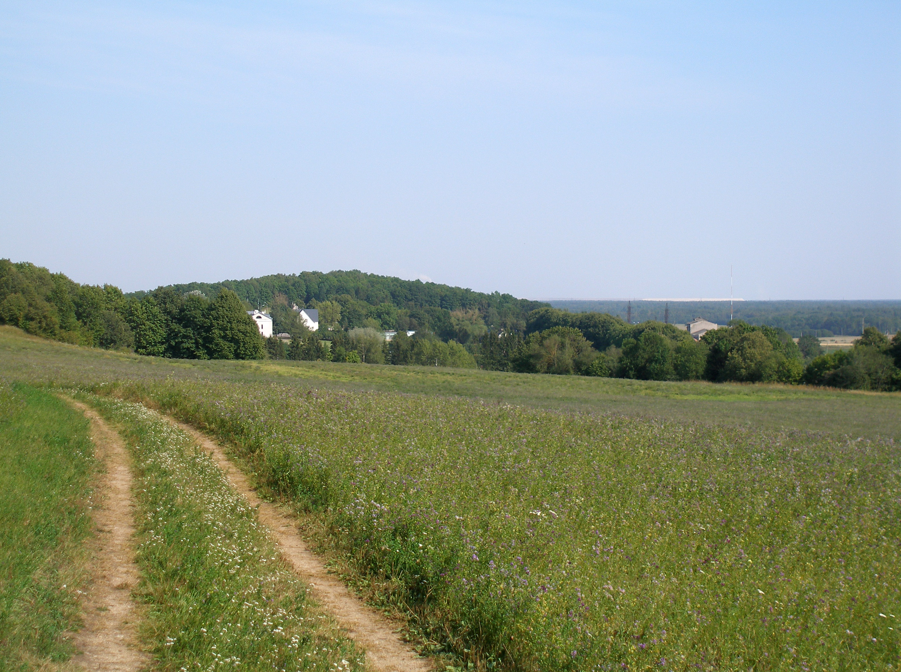 Sinimäed Hills (Vaivara Sinimäed) in Estonia. View from Põrguaugumägi towards Pargimägi. Ash plateau of Balti Power Plant visible on the horizon.